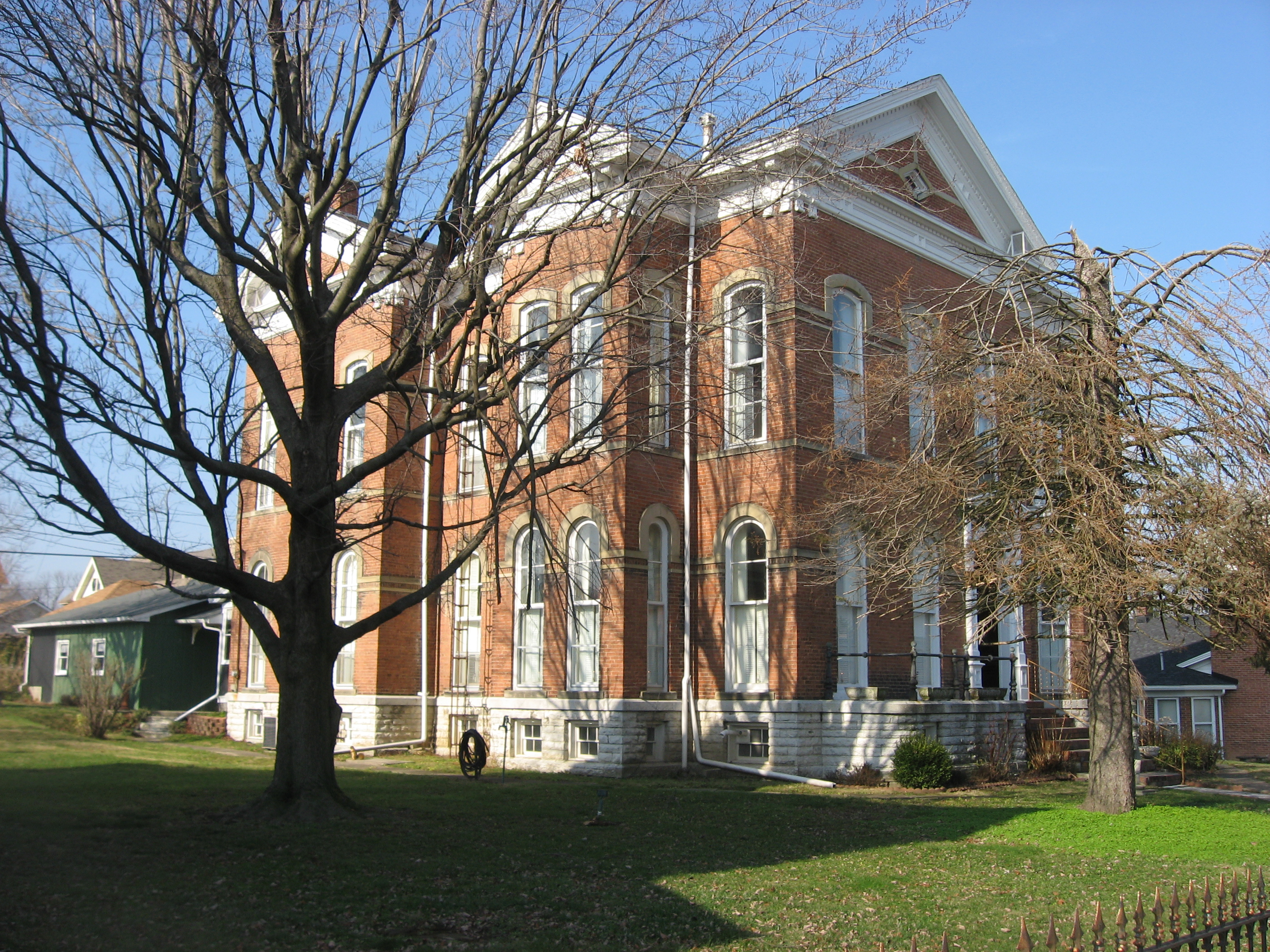 Front of the Bright B. Harris House, located at 413 N. Franklin Street in Greensburg, Indiana, United States. Built in 1871, it is listed on the National Register of Historic Places.